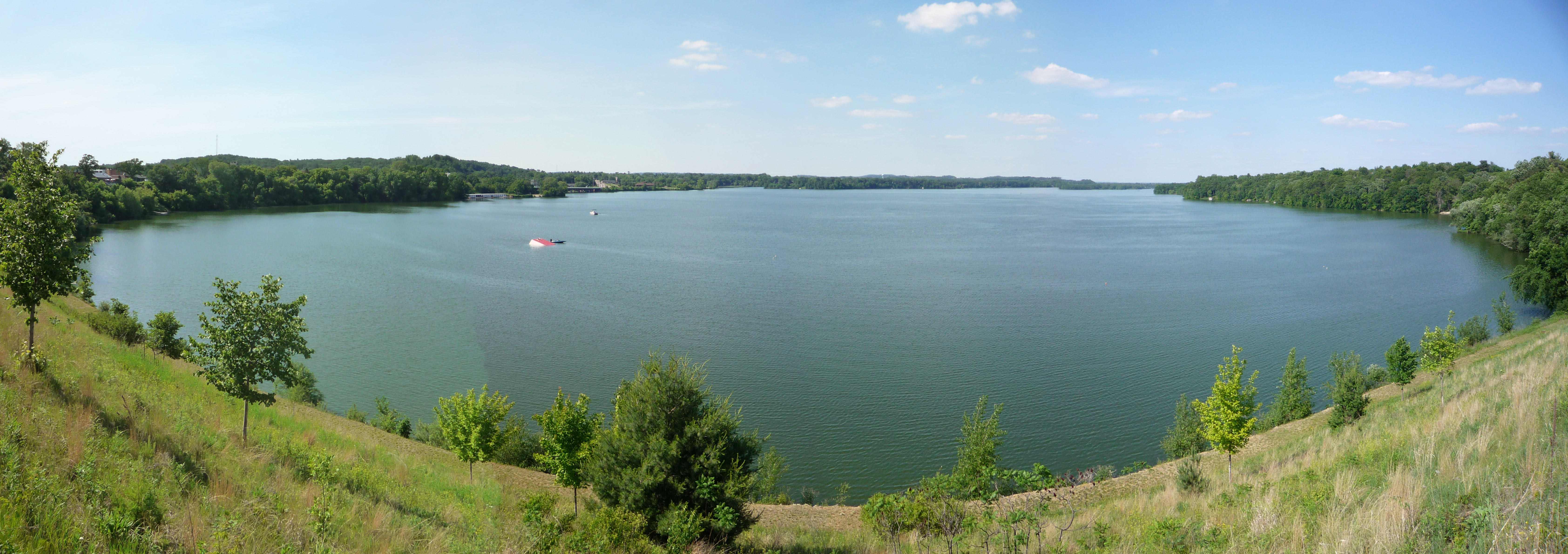 Lake Menomin as viewed from downtown Menomonie, Wisconsin, USA.